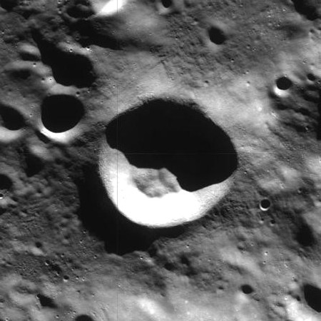 Kocher lunar crater - LRO WAC image